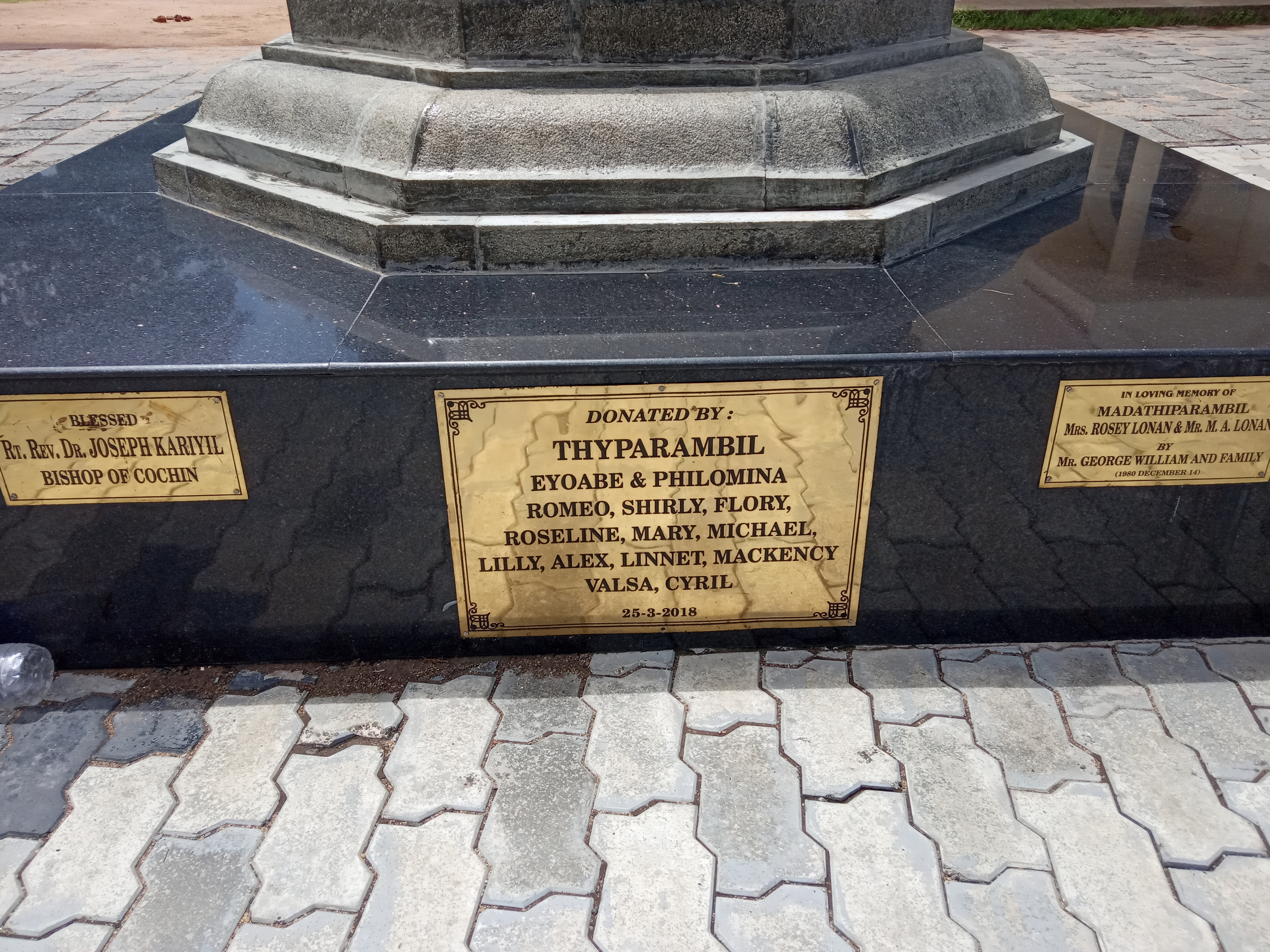 details of the foundation of church and golden tower